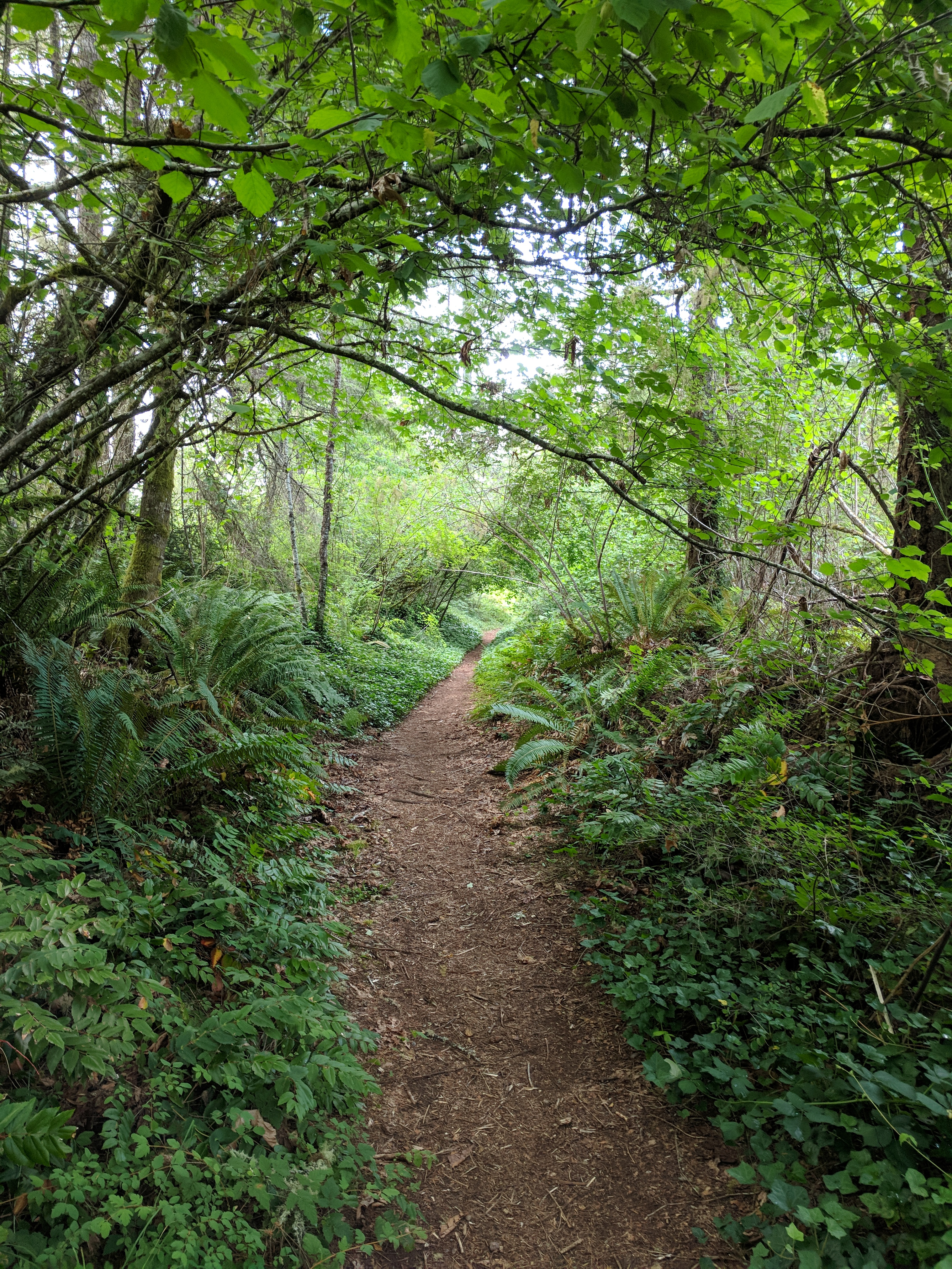 Trail picture taken in the woods at Joemma Beach State Park, WA, USA. The trail pictured here leads from the road loop at the northern side of the park to a trailhead (marked by a wooden post with a white sign) on 30th St SW in Lakebay, Washington.